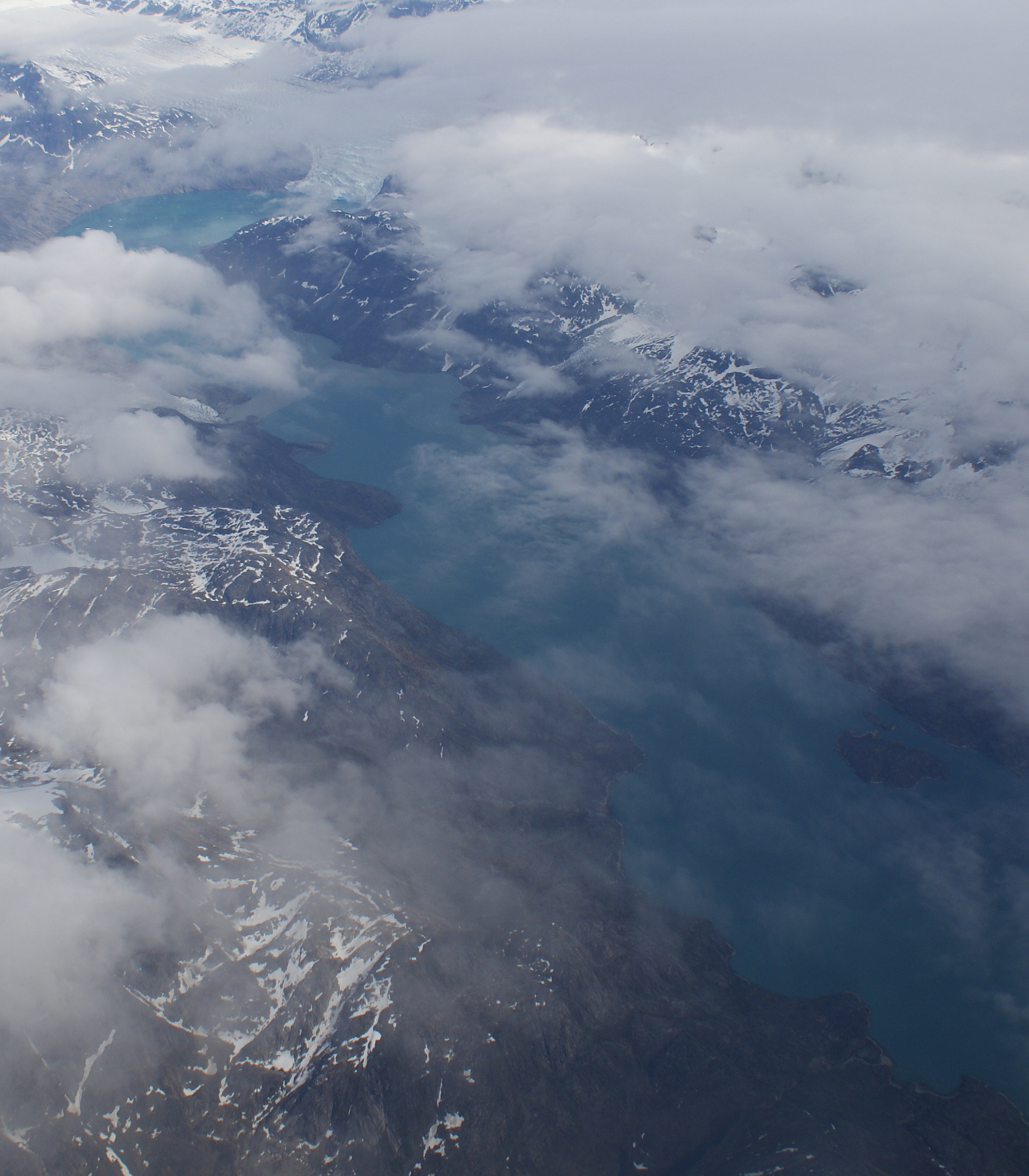 Kangaamiut Kangerluarsuat Fjord, Greenland. Photographed from the Air Greenland de Havilland Canada Dash-7 ""Sululik"" during the Sisimiut-Nuuk flight.